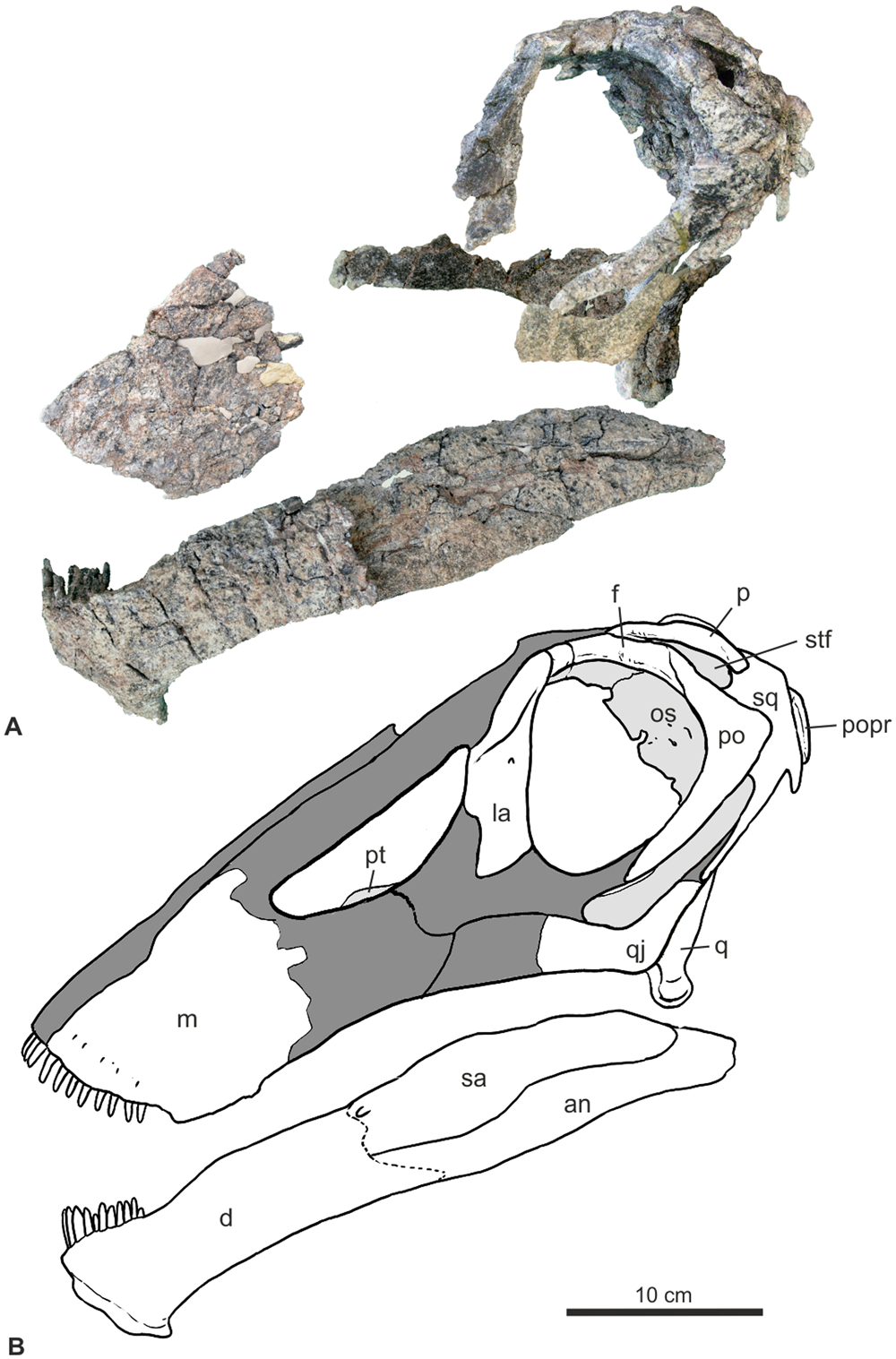 Skull of Bajadasaurus pronuspinax gen. et sp. nov (MMCh-PV 75). (A) Cranial bones of Bajadasaurus in articulation in lateral view. The spatial location of disarticulated elements is inferred based on recognizable articular facets and/or by comparison with the skull of Diplodocus sp. (CM 11161). (B) Interpretative drawing of the skull of Bajadasaurus in lateral view. Missing bones are reconstructed based on the skull of Diplodocus sp. (CM 11161). an, angular; d, dentary; f, frontal; la, lacrimal; m, maxilla, os, orbitosphenoid; p, parietal; po, postorbital; popr, paraoccipital process; pt, pterygoid; q, quadrate; qj, quadratojugal; sa, surangular; sq, squamosal; stf, supratemporal fenestra.